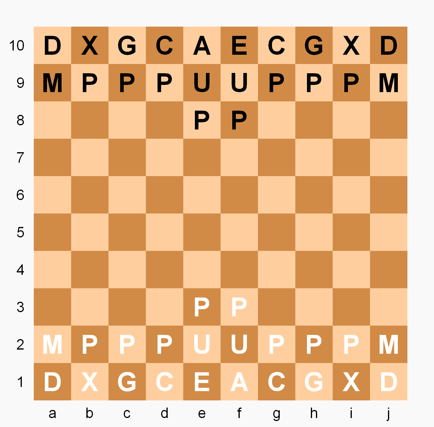 2000 A.D. starting position, "optimum extra" w/ 2 Pawns